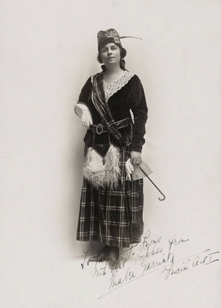 1916 publicity photo of Mabel Garrison inscribed to Lucille Lyons of Fort Worth, Texas